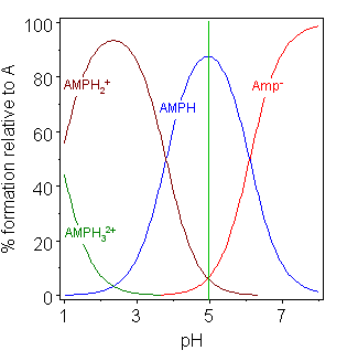 Adenosine monophosphate speciation showing isoelecric point